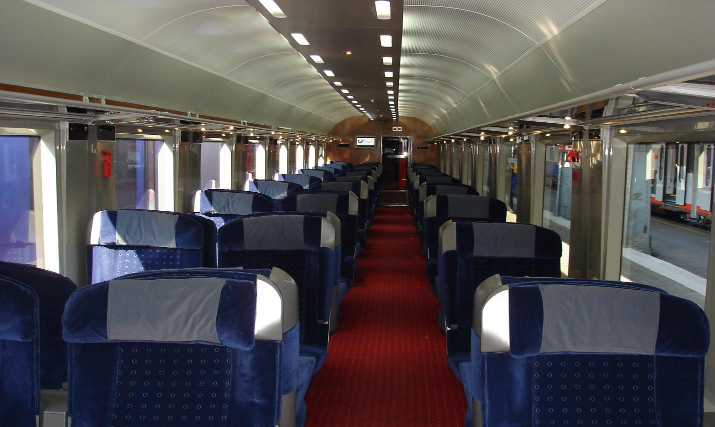 The interior of a modernised coach using for Interegio trains in 2011